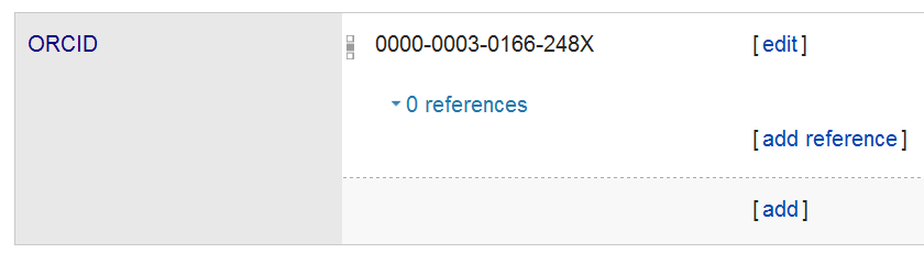 Screenshot of the Wikidata entry about Nick Jennings, showing his ORCID identifier.